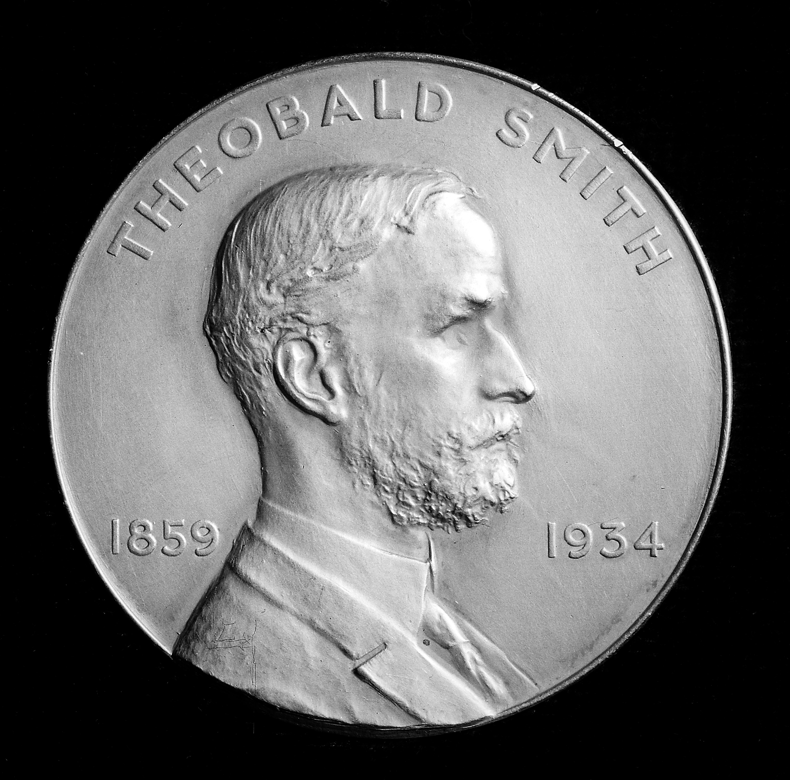 The Theobald Smith Gold Medal presented to Dr Charles Morley Wenyon, 17th January, 1946. Wellcome Images Keywords: coins and medals